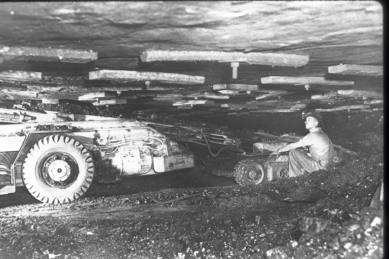 Miners work in a mine with a low roof